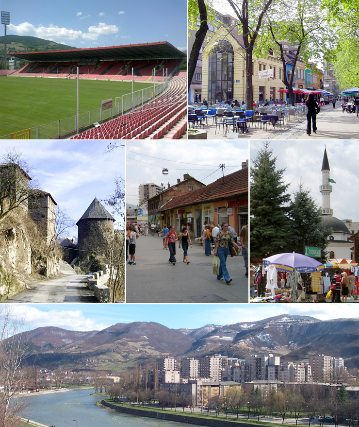 Zenica collage: Bilino Polje Stadium, Zenica center, Vranduk fortress, Zenica bazaar, Zenica mosque, Bosna river in Zenica]